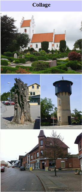 4-picture collage of Skørping. Including; File:Skørping 09 ies.jpg, File:Skørping Nykirke2.JPG, File:Skørping 01 ies.jpg and File:Jyllandsgade i Skørping.JPG